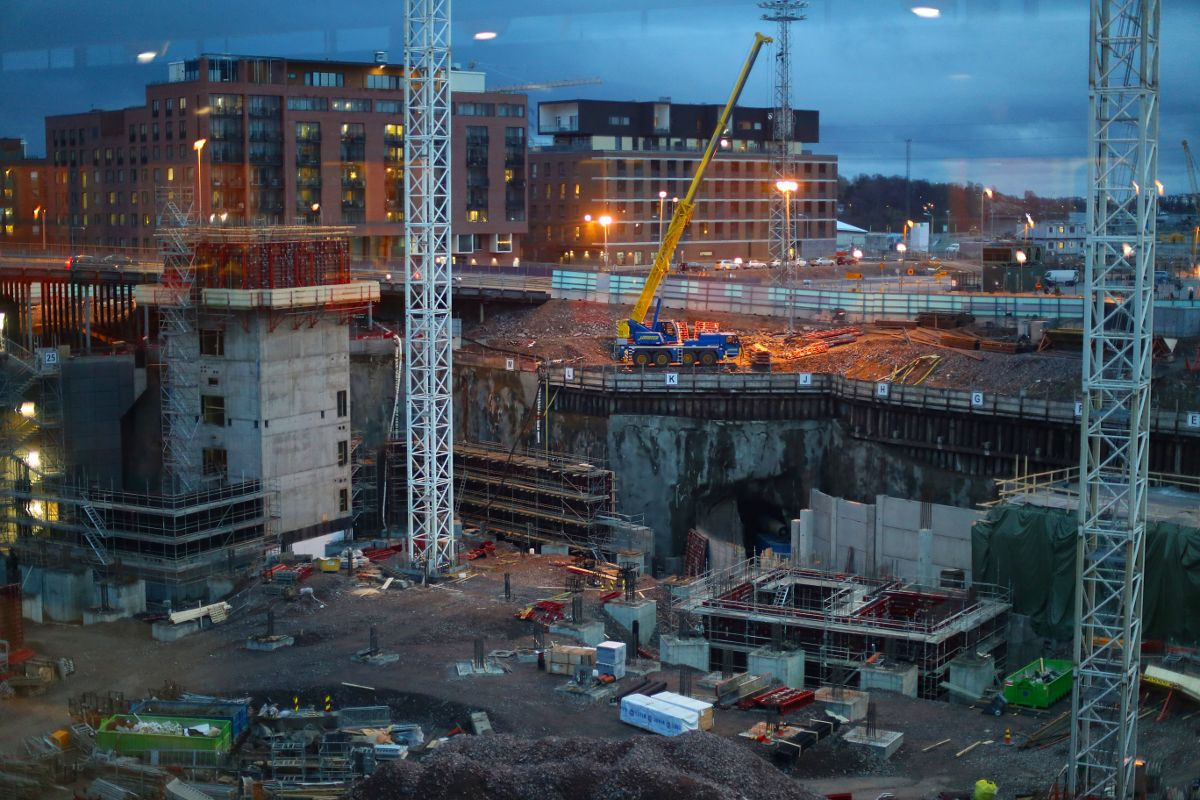 Red's and SRV construction in Kalasatama Helsinki. Original 5472x3648 pix.